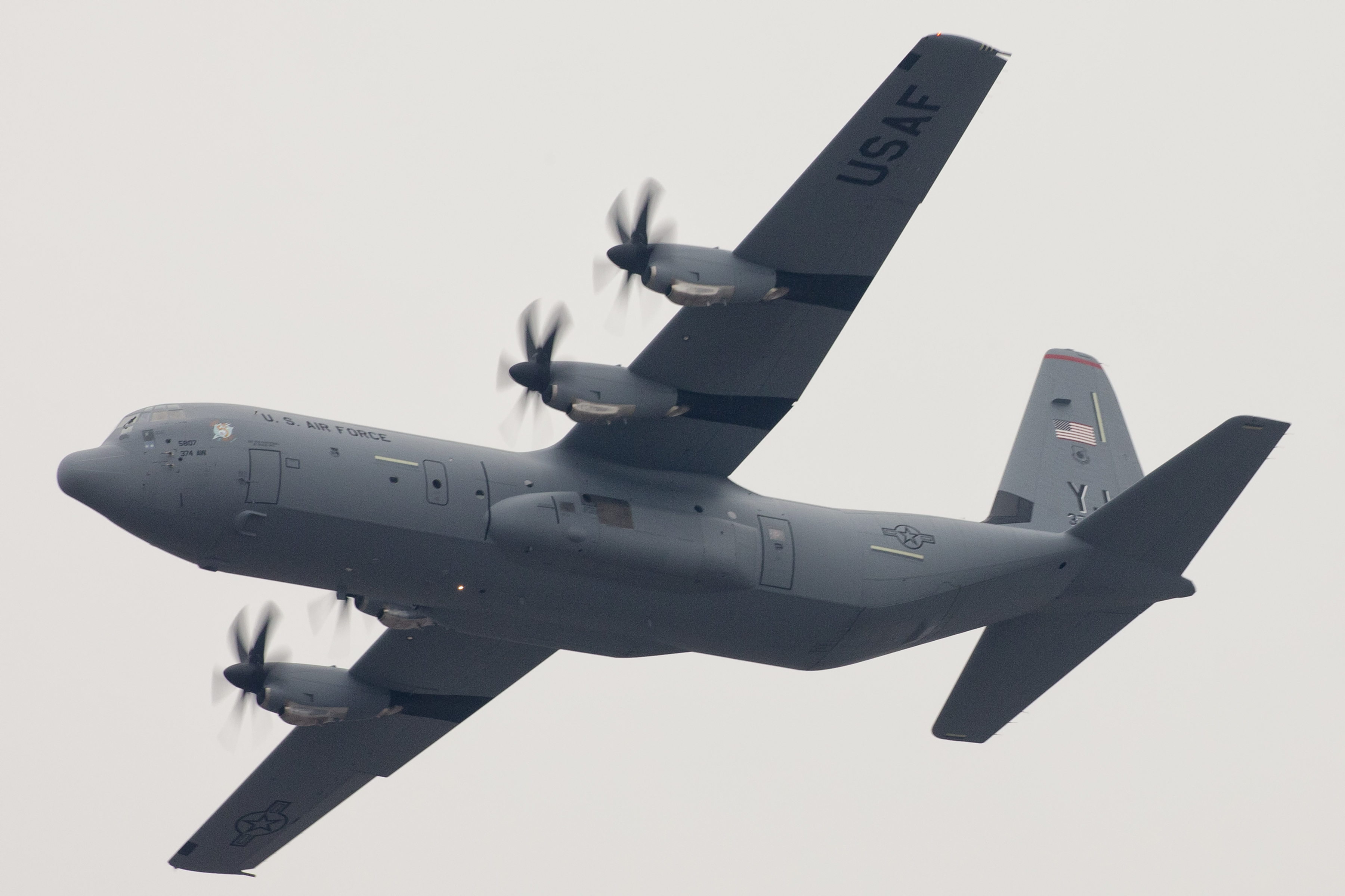 A C-130J Super Hercules flies over Yokota Air Base, Japan, March 6, 2017. This is the first C-130J to be assigned to Pacific Air Forces. Yokota serves as the primary Western Pacific airlift hub for U.S. Air Force peacetime and contingency operations. Missions include tactical air land, airdrop, aeromedical evacuation, special operations and distinguished visitor airlift.